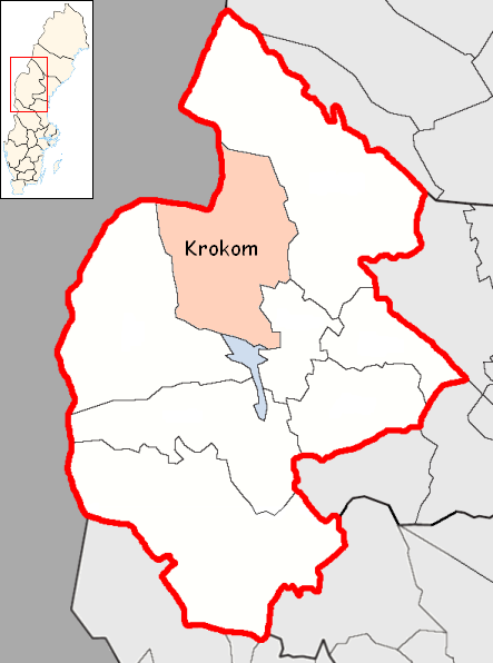 Krokom Municipality in Jämtland County Designd by me, based on Image:Jämtland County.png